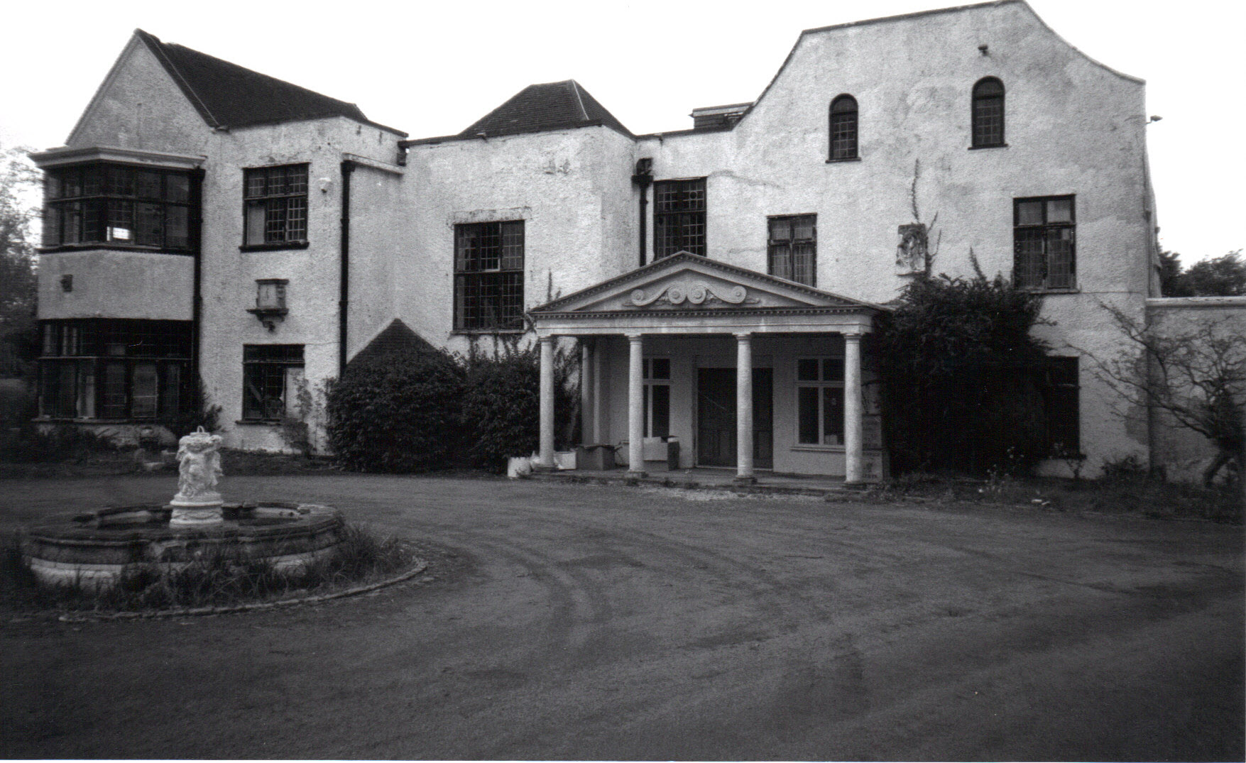 Old Rectory